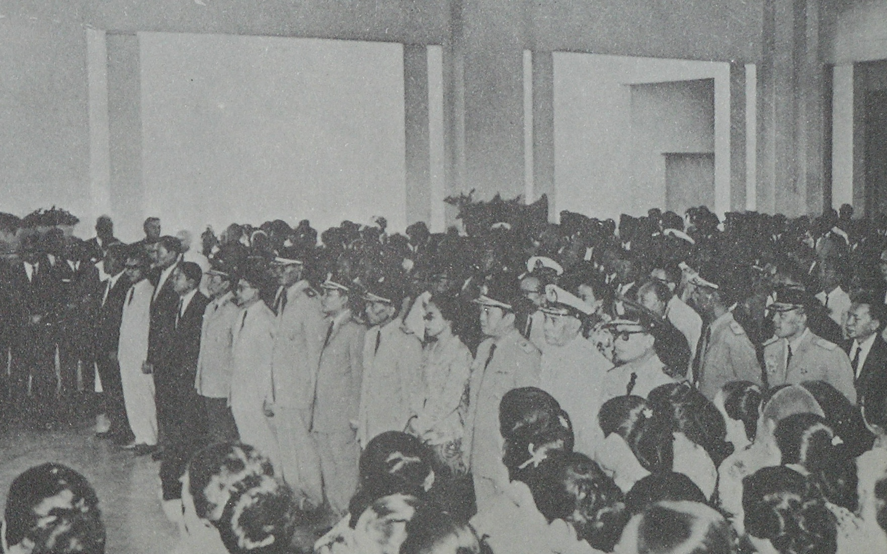 The appointment of the Indonesian Dwikora Cabinet on 27 August 1964